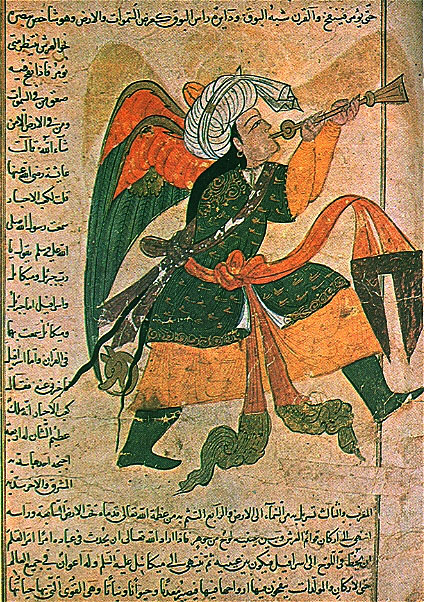 A manuscript copied in 14th Century